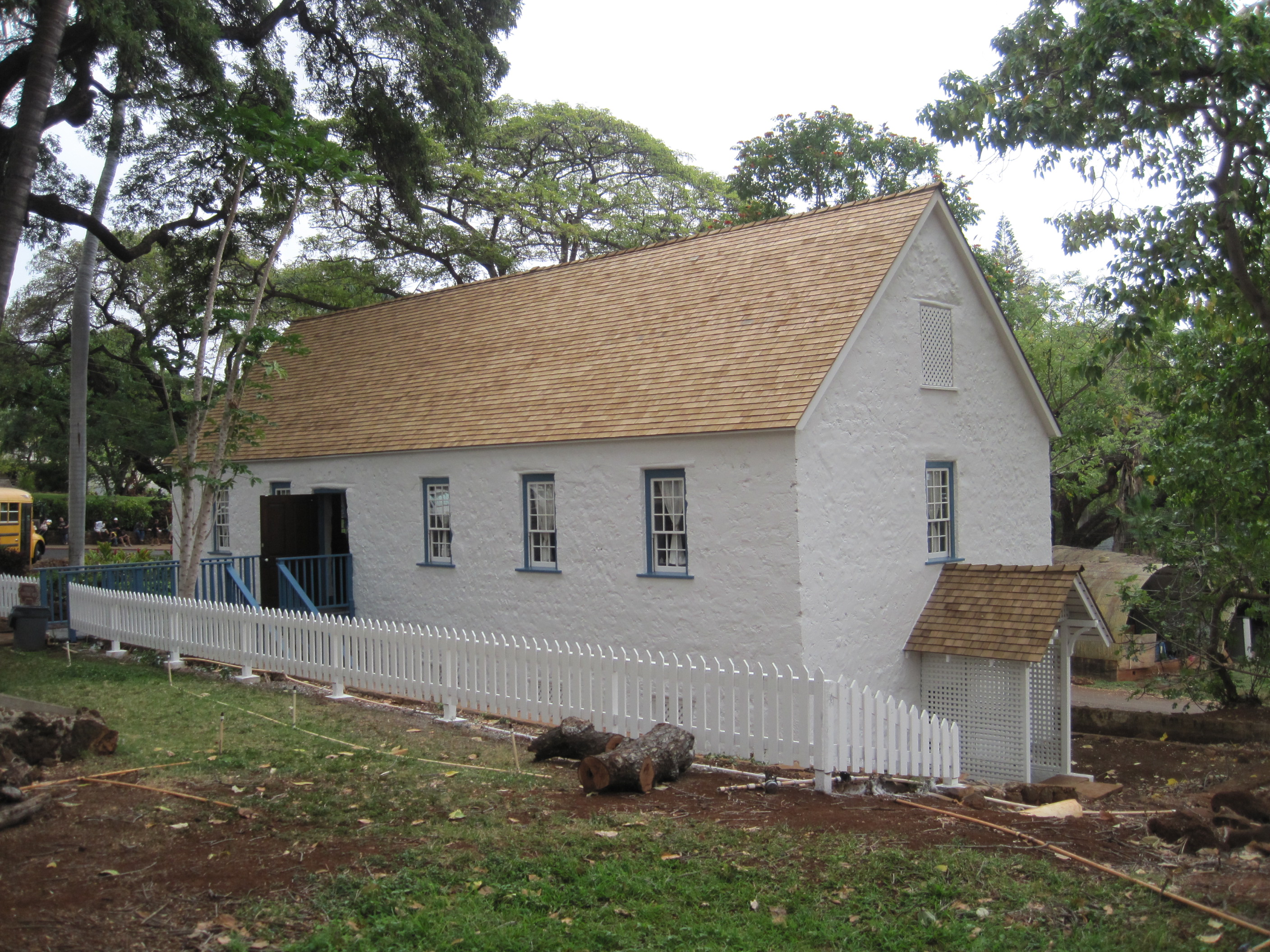 Hale Pa'i, 980 Lahainaluna Road, Lahaina, Hawaii, on National Register of Historic Places